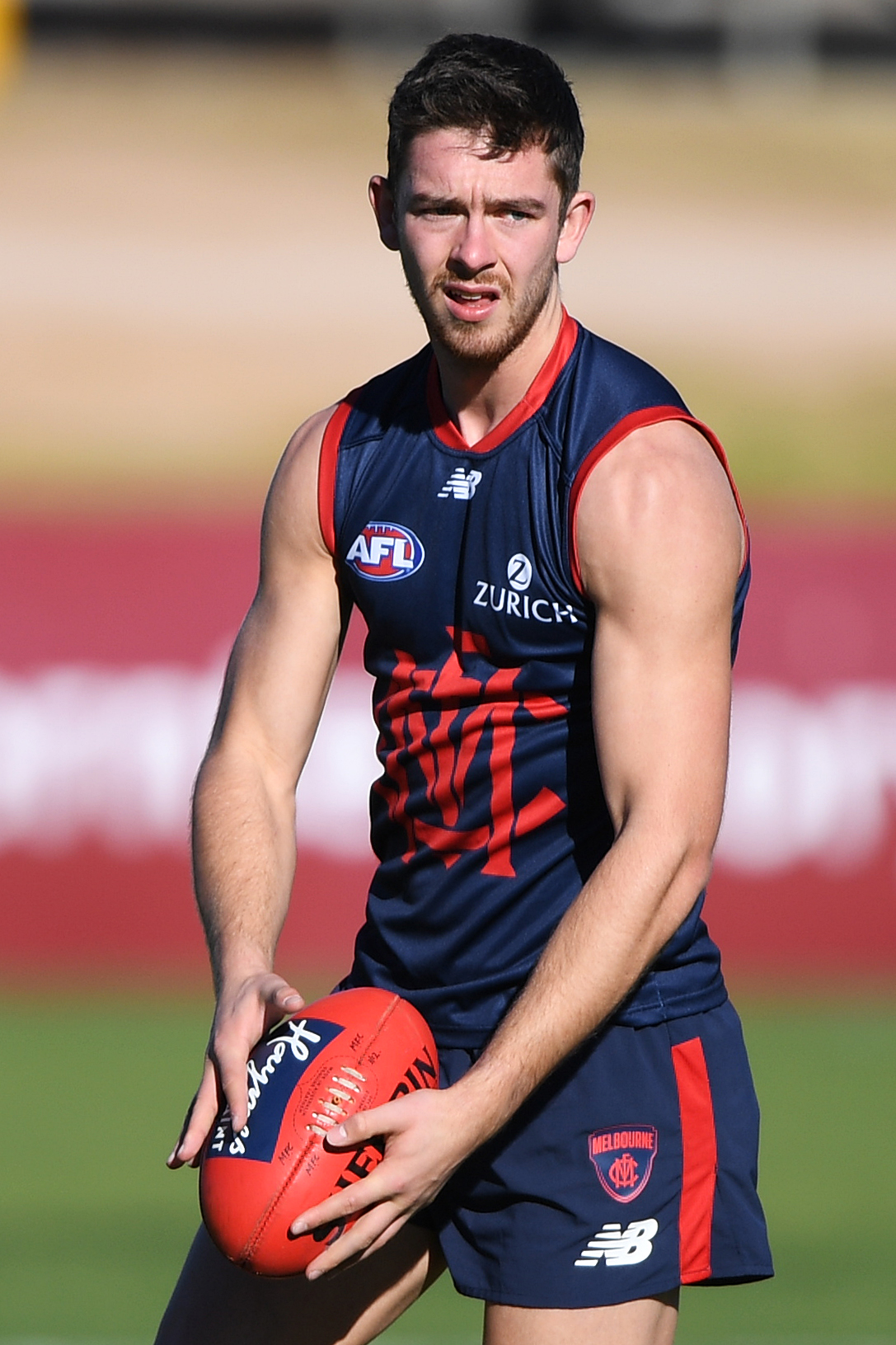 Kyle Dunkley of Melbourne during Melbourne training at Traeger Park on Saturday, 20 July 2019 in Alice Springs, Northern Territory.